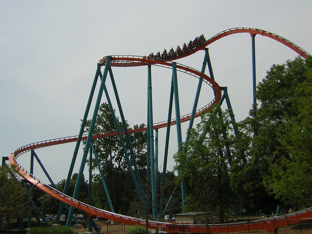 Goliath, hyper and mega roller coaster at Six Flags Over Georgia, USA.